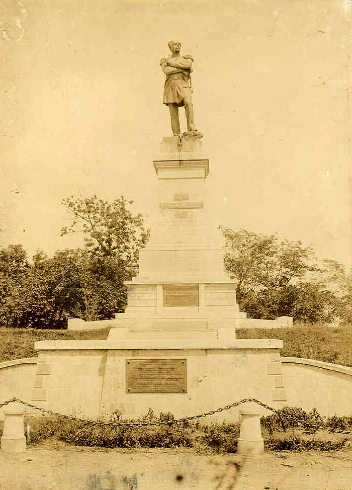 Khabarovsk. Monument to count N. N. Muravyov-Amursky. ~1896. (Emile Ninaud)